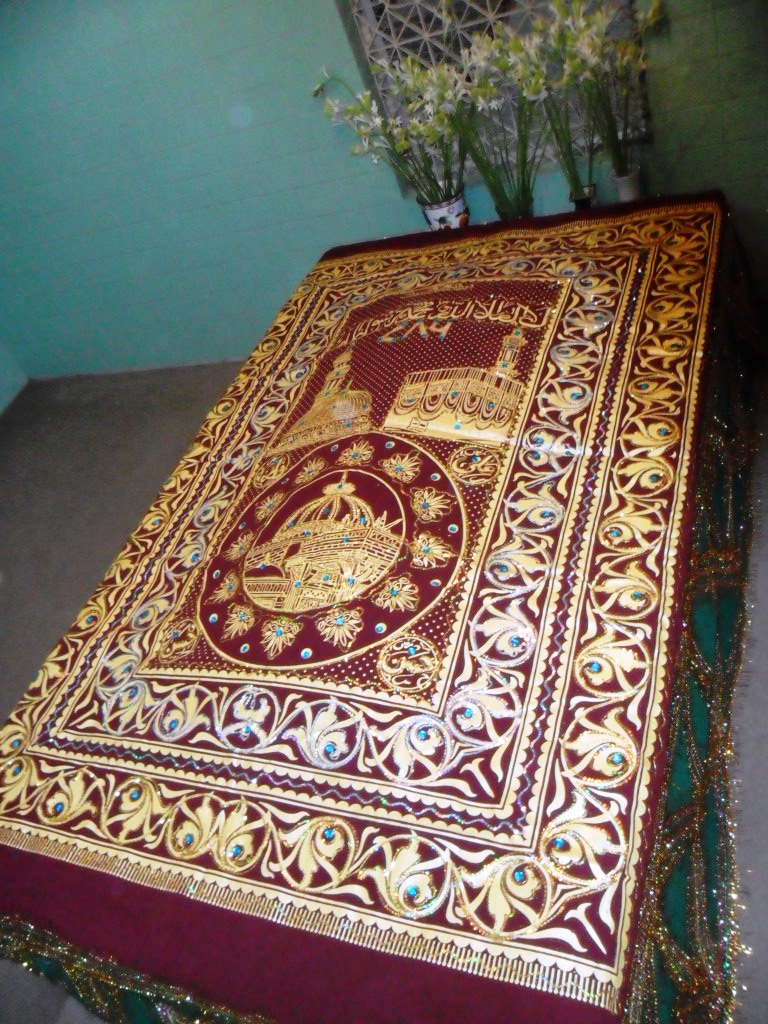 Mazar of Mufti Sayed Muhammad Amimul Ehasan Barkati